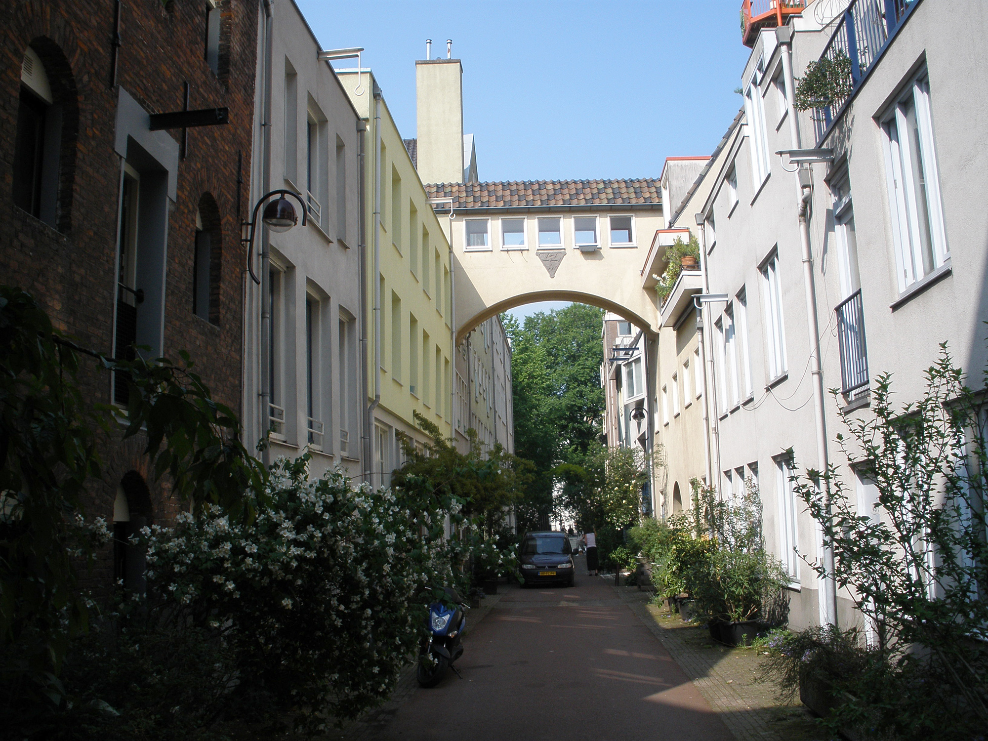 The Verversstraat in Amsterdam, looking north towards the Raamgracht canal.